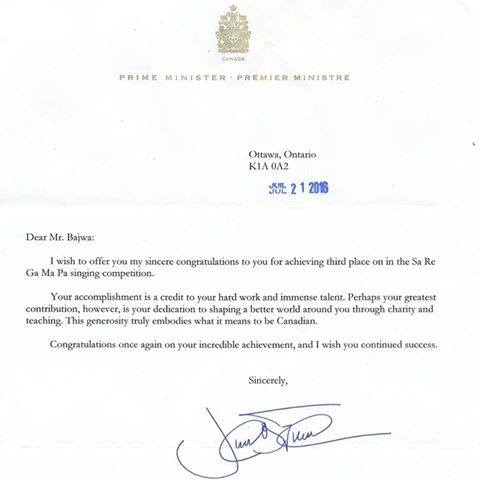 Hon'ble Canadian Prime Minister's Letter of Appreciation to Jugpreet Bajwa